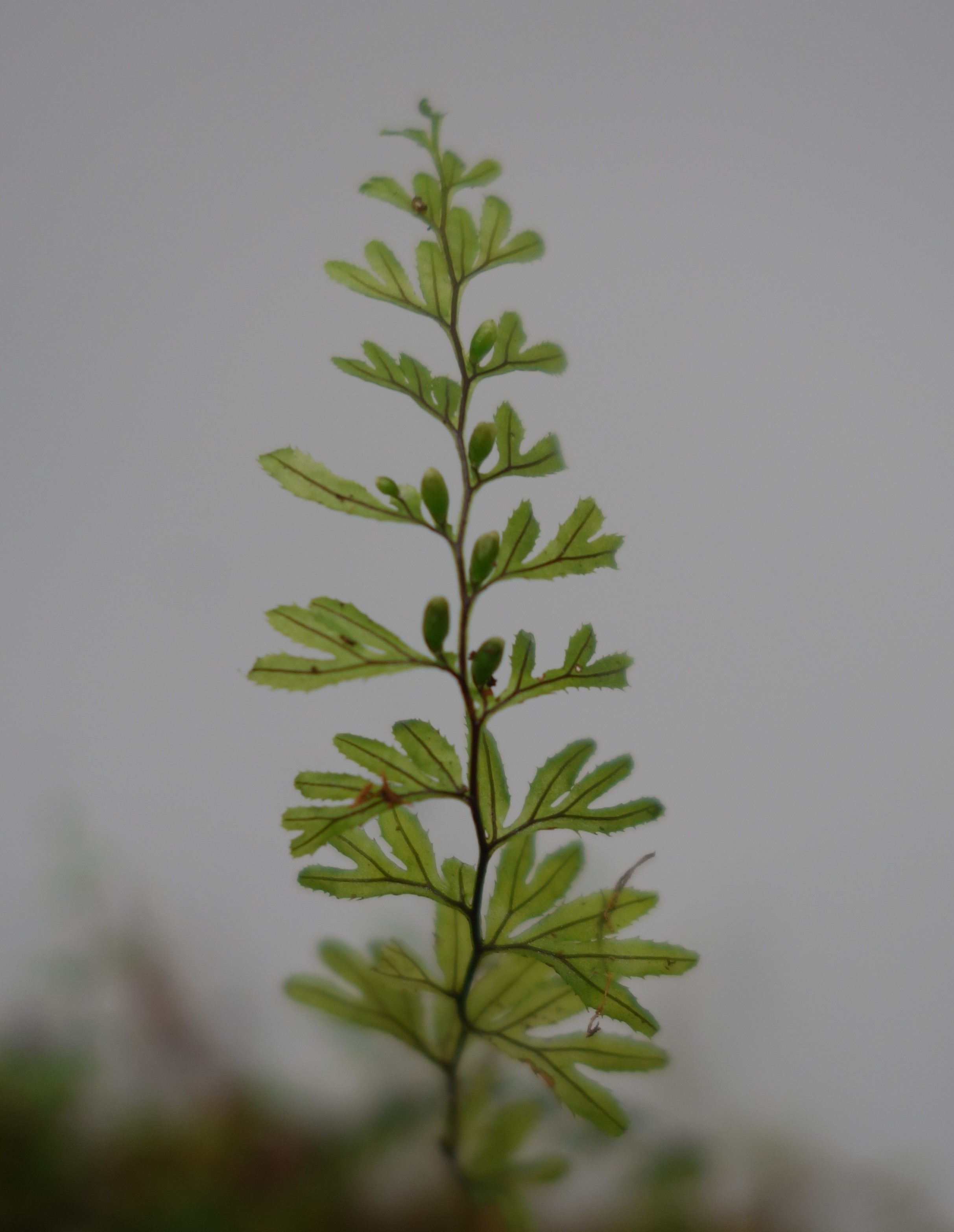 Hymenophyllum peltatum. Photo courtesy of Patrick Dalton.